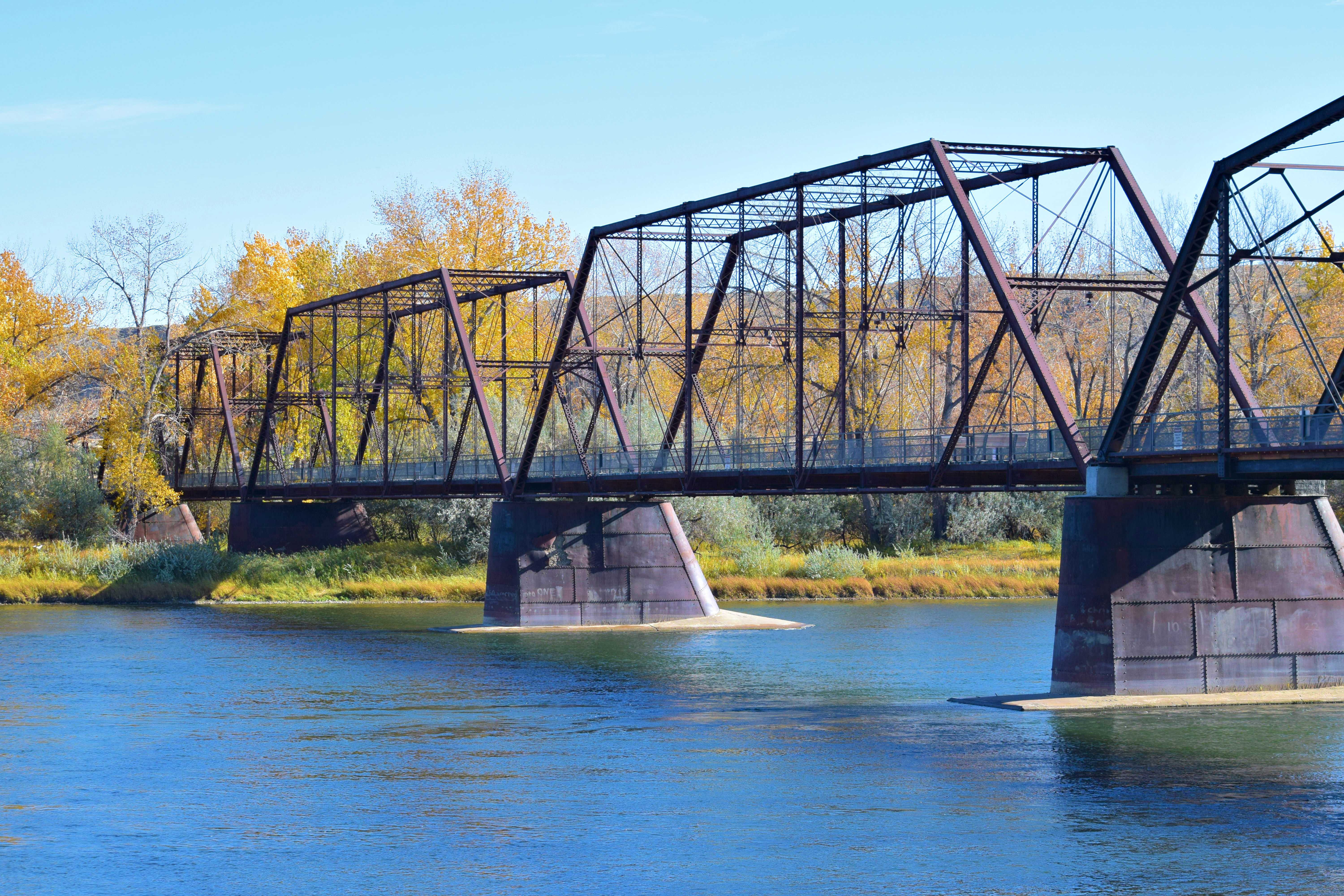 Ft Benton Bridge was the first bridge built in Montana in 1888.